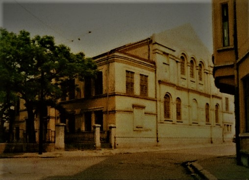 Malbim Synagogue, named after Rabbi Meir Leibish Malbim (1809-1879), on 4 Strada Bravilor, in Bucharest, 1900